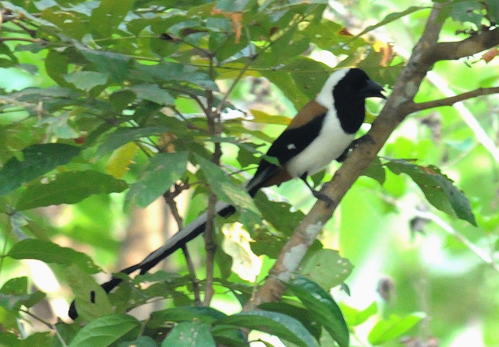 White bellied tree pie at Thattekad bird sanctuary, Kerala, India